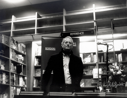 Photojournalist David Burnett at his first book signing, "Soul Rebel". This image was shot using a Speed Graphic, one of Burnett's cameras of choice.